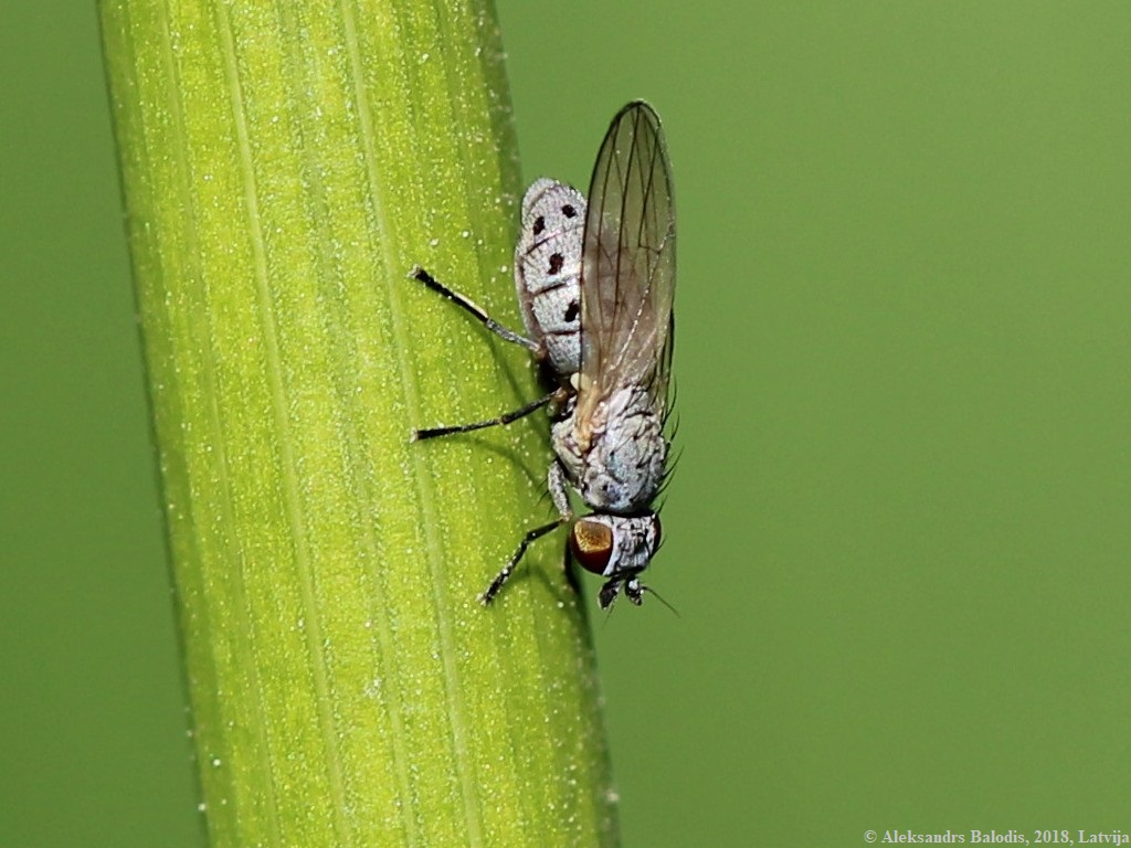 Chamaemyia sp.